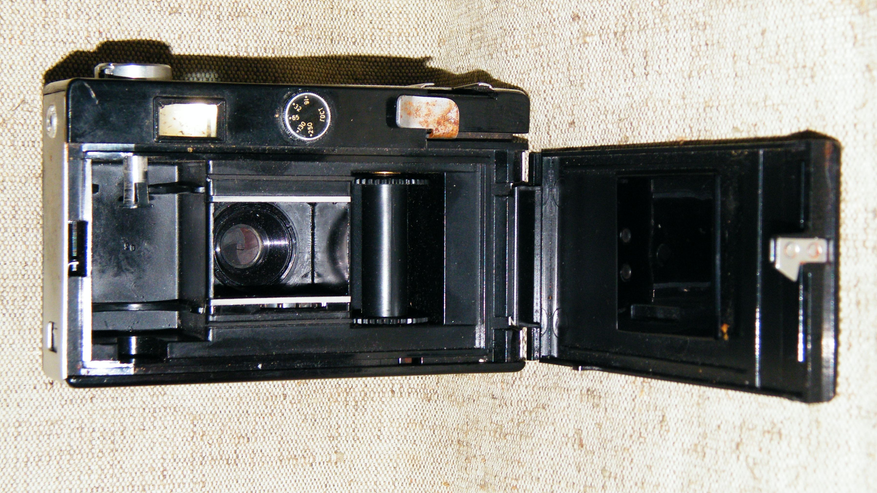 Вилия-авто